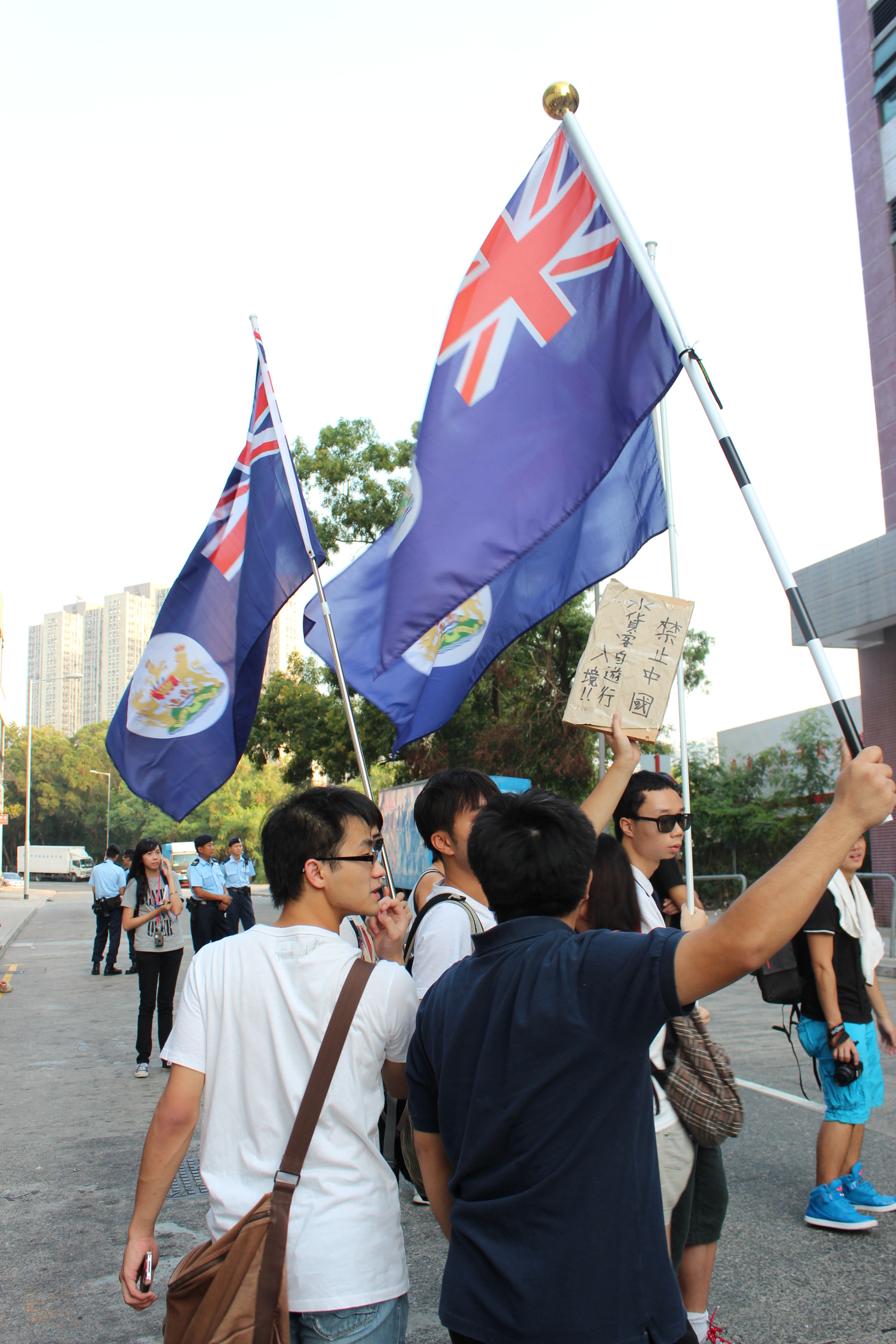 Protesters Holding the British Hong Kong Flag中文（香港）: "光復上水站"行動中，示威人仕手持zh:香港旗